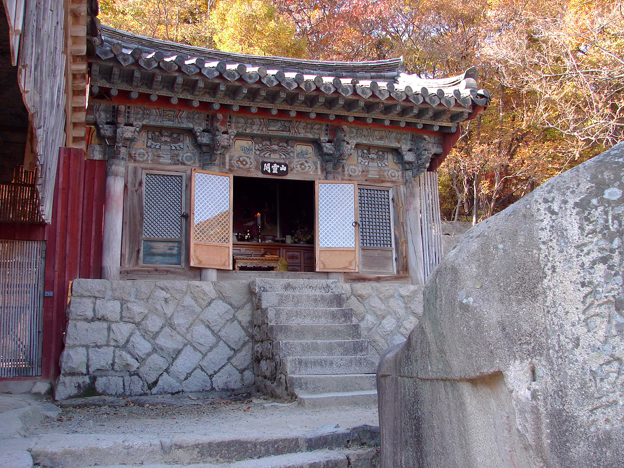 Beomeosa Sansingak is the shrine dedicated to the Mountain Spirit. Inside is the portrait of the Mountain Spirit depicted as an old man with a mountain tiger.